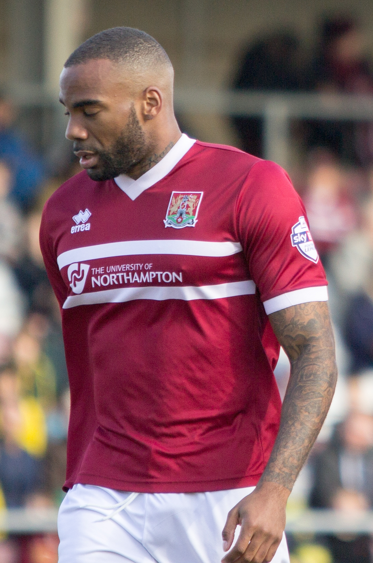 Emile Sinclair playing for Northampton Town against Mansfield Town at Sixfields Stadium, Northampton on 15 March 2014